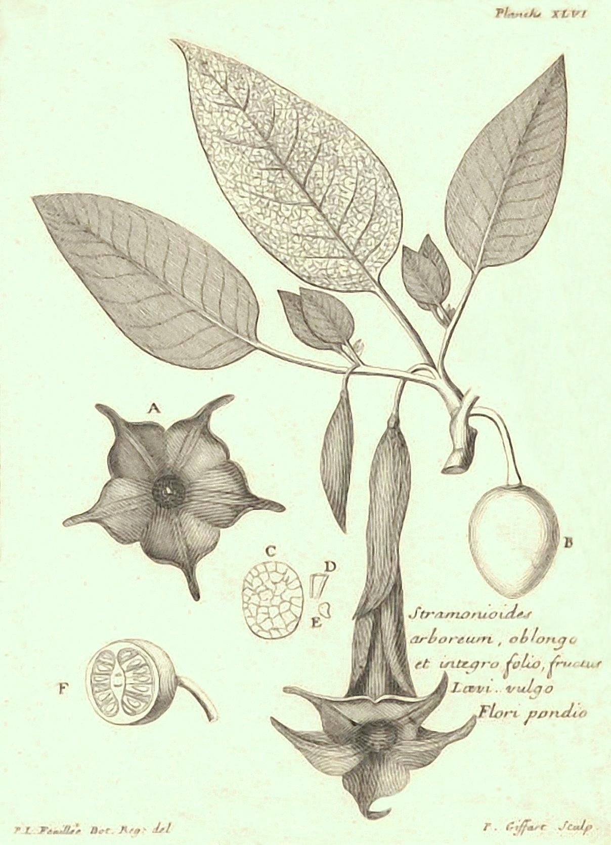 Louis Feuillée's original illustration of Brugmansia arborea, as Stramonioides arboreum, in 1714, used by Linnaeus as the type specimen for this species. A) Flower; B)Fruit; C)Fruit; D)Seed; E)Endocarp; F)Fruir : axial cut.